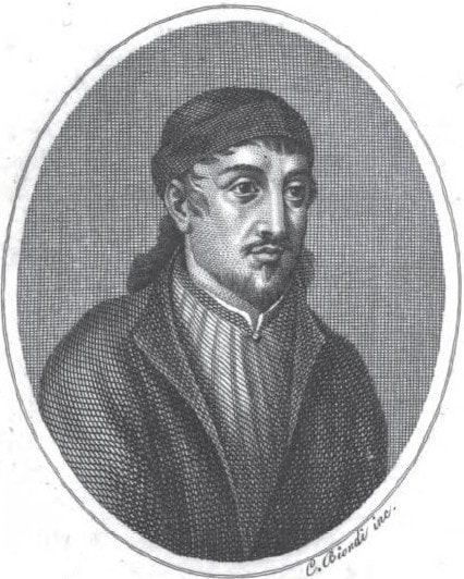 Alcadino of Syracuse, Sicilian doctor and poet